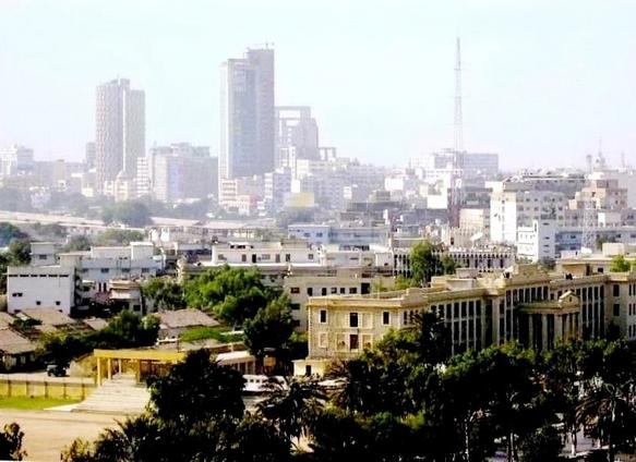 Karachi Downtown